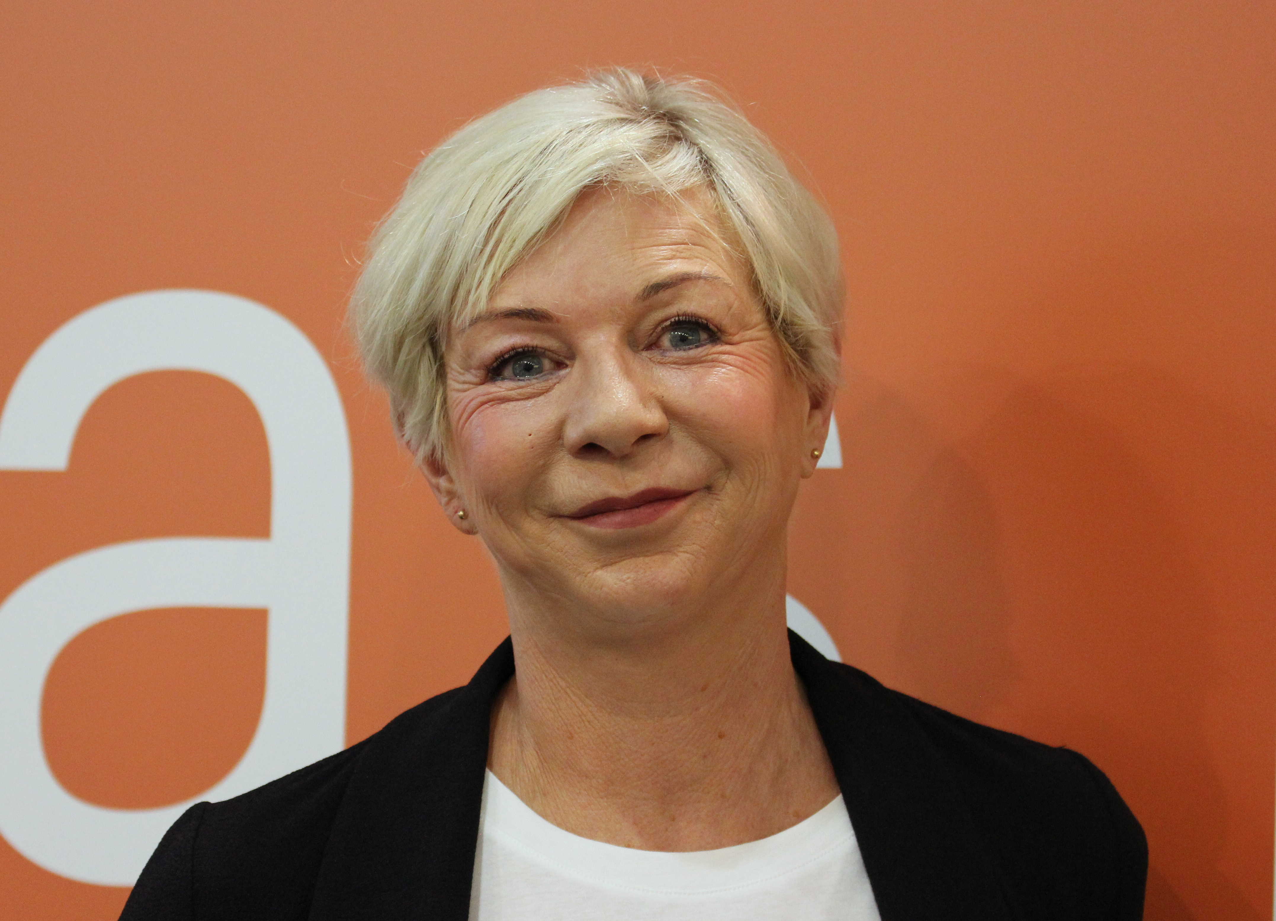 Rita Falk Frankfurt Book Fair 2018